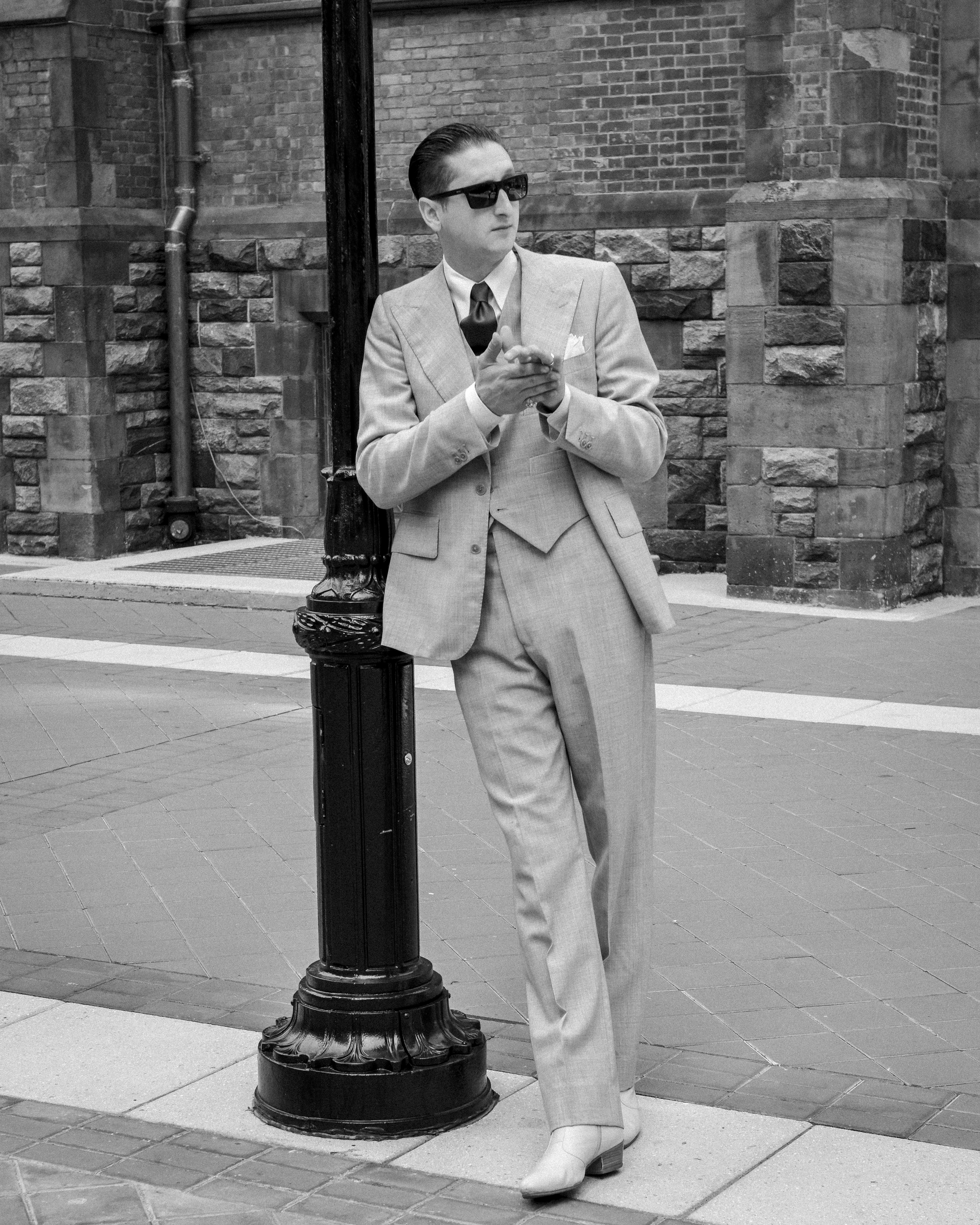 Brian Newman